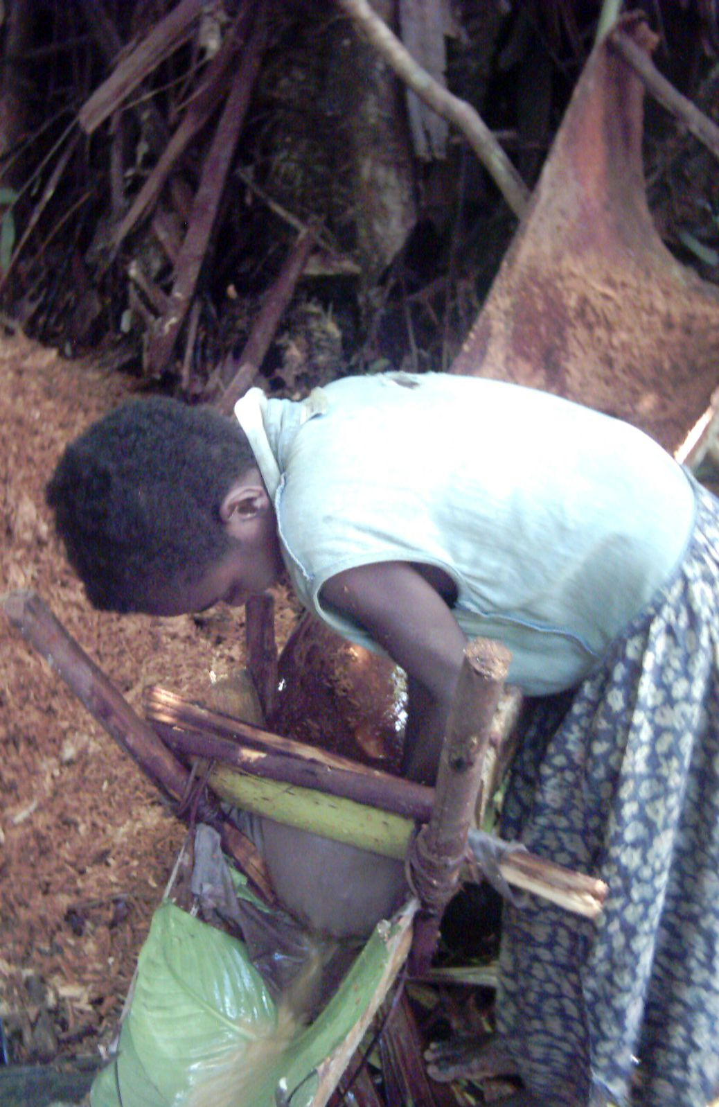 A girl filtring sago starch for sago production, East Sepik Province, Papua New Guinea